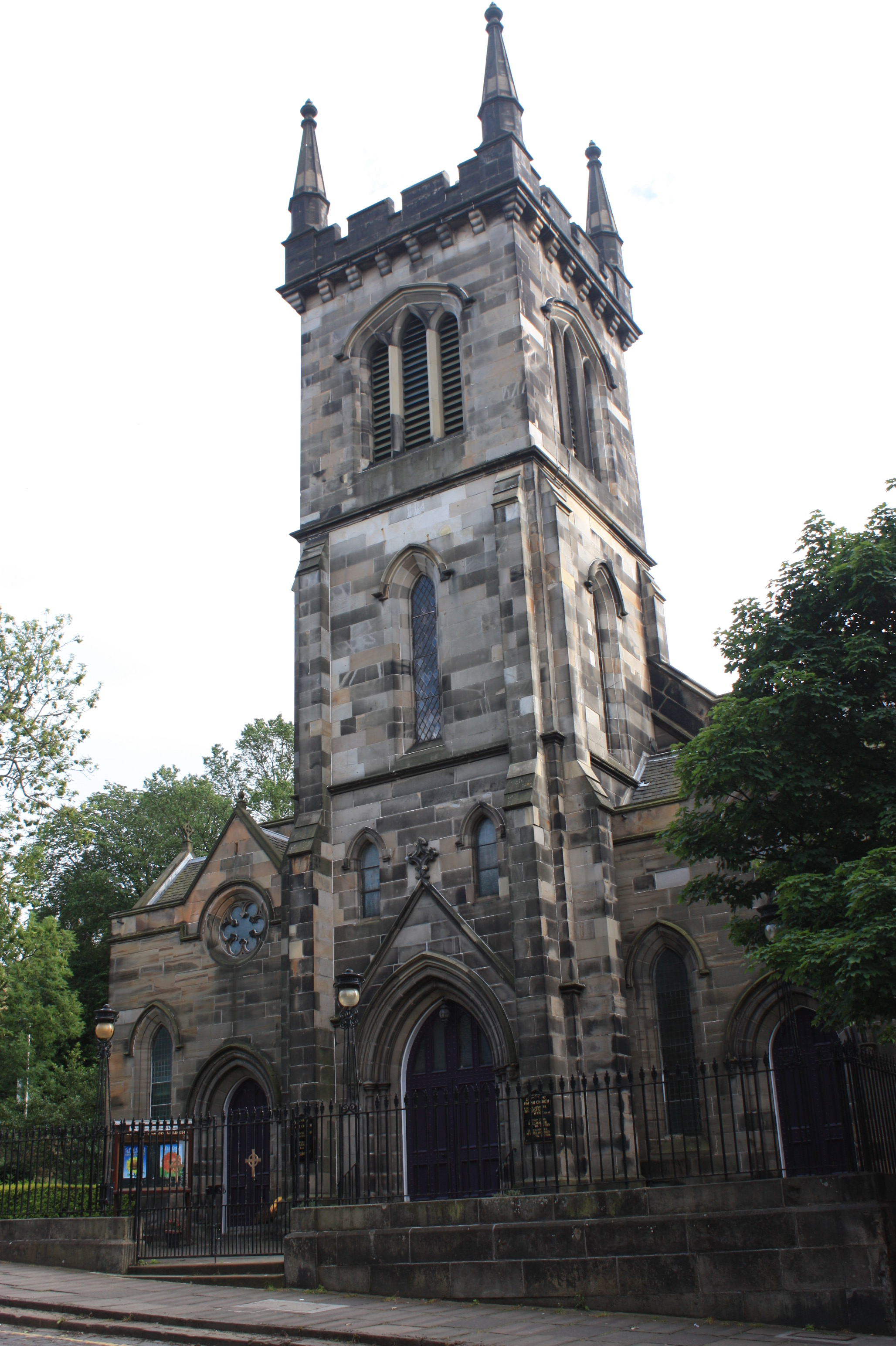 Lady Glenorchy's Church, Blenheim Place, Edinburgh